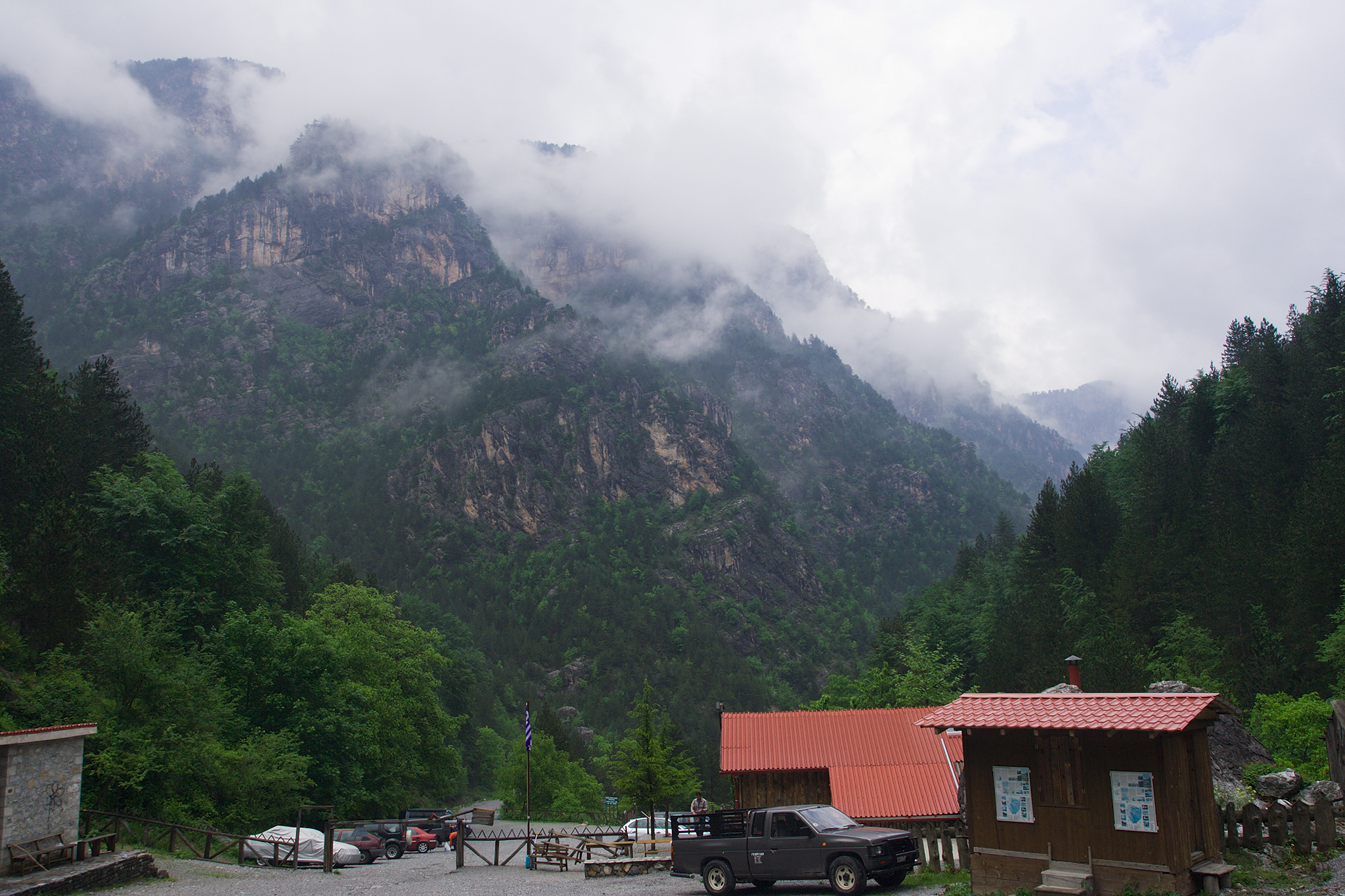 Prionia, mount Olympos, Greece